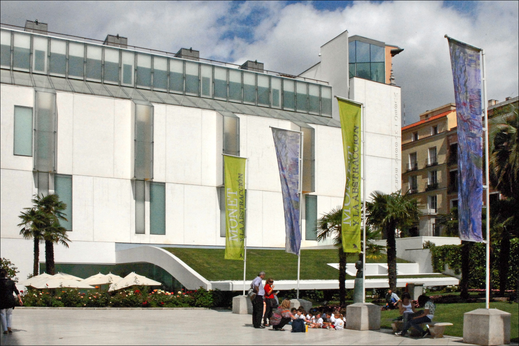 Extension of Thyssen-Bornemisza Museum in Madrid (Spain).